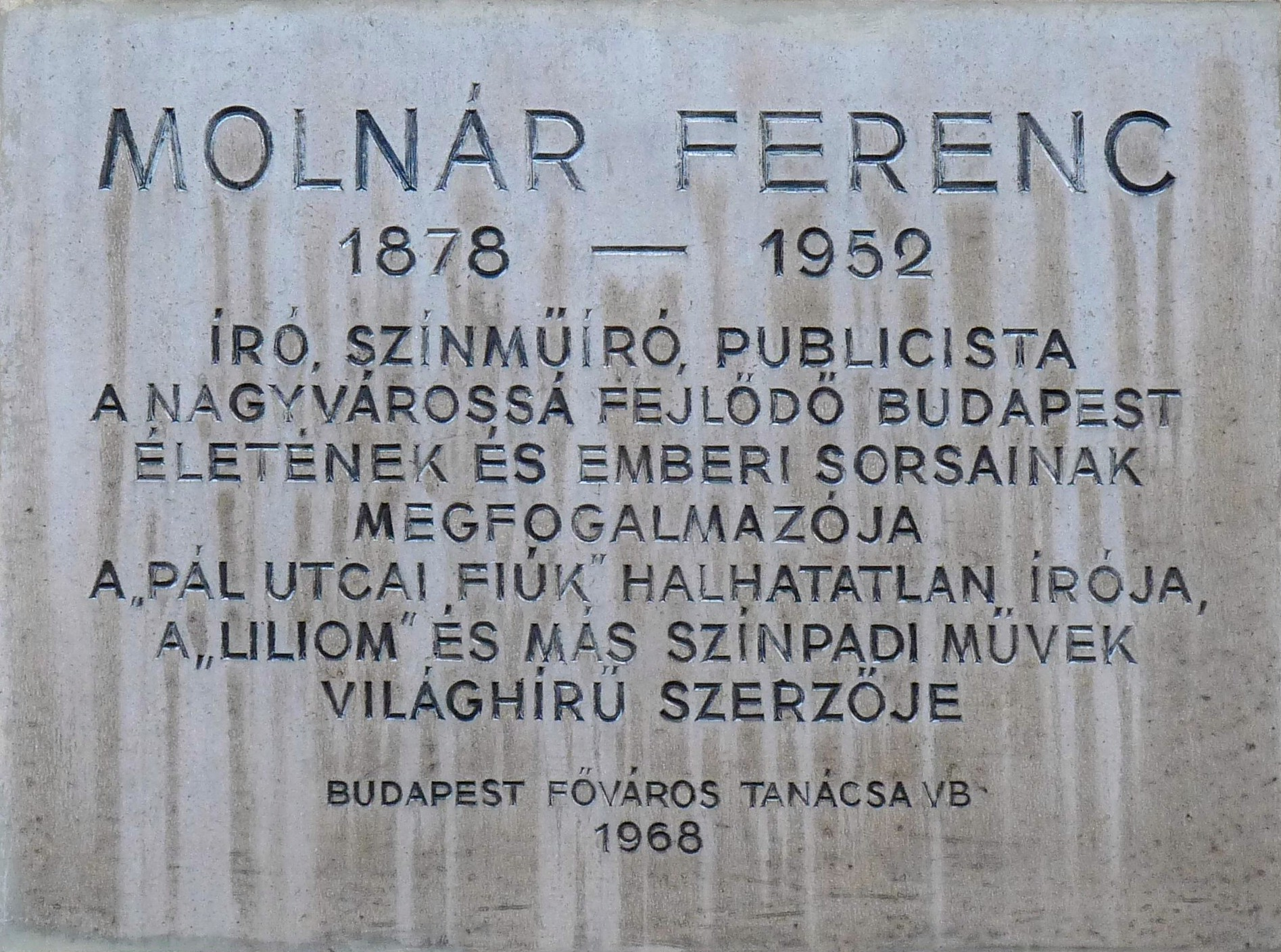 Ferenc Molnár commemorative plaque in Budapest District VIII, Molnár Ferenc Square No 2.